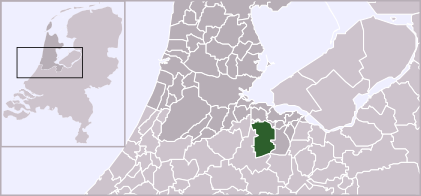 Locator map of Dutch municipalities in Noord-Holland (LocatieWijdemeren.png)